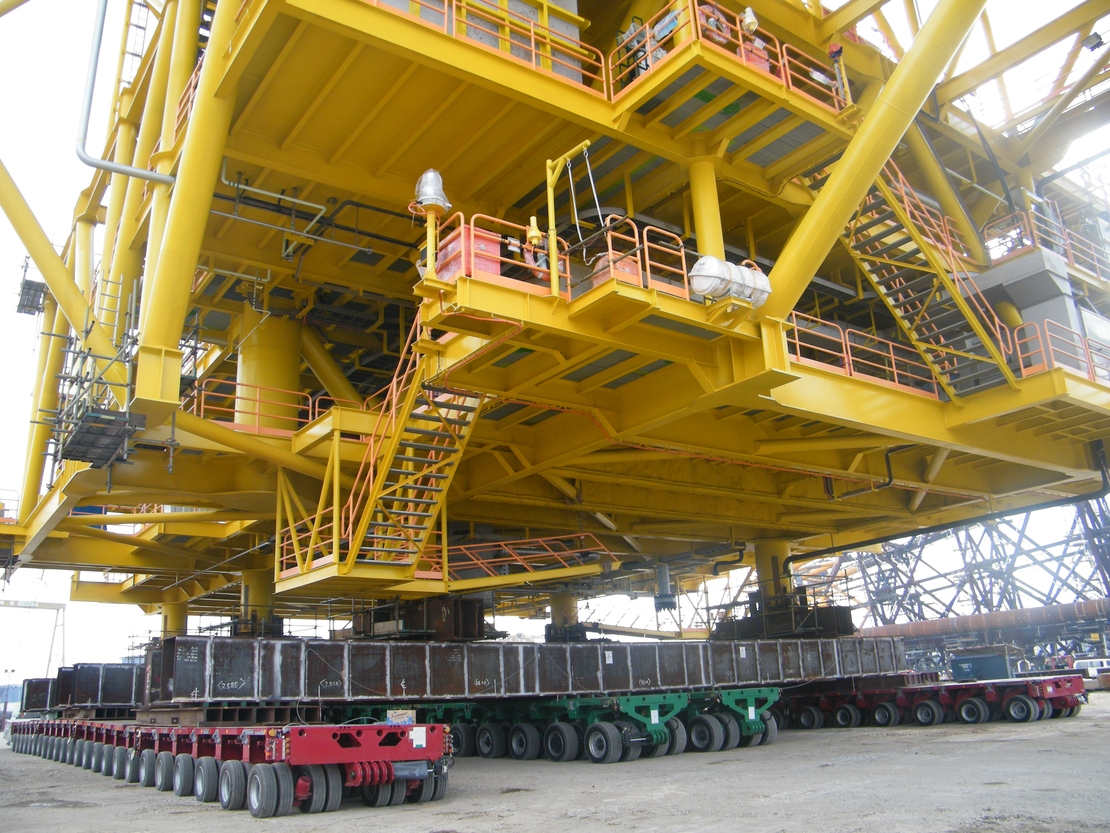 SPMT transportation